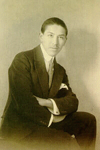 Part of the Alberto Vargas papers in the Smithsonian Archives of American Art. This is believed to be the earliest surviving photograph of Alberto Vargas after arriving in the US. The original photo is in the Alberto Vargas papers in the Smithsonian Archives of American Art. It was taken before he began work for Florence Ziegfeld and the Ziegfeld Follies which dates it with certainty as prior to 1923.